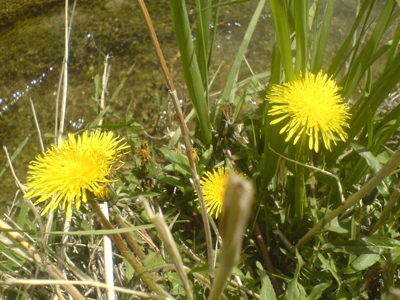 faraj abad فرج آباد روستایی زیبا در استان مرکزی شهرستان خمین